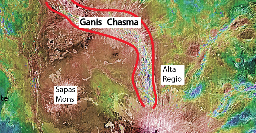 Image of the Ganis Chasma Rift Zone on Venus. Image taken by the Magellan spacecraft by NASA. Labels placed by Gregg Dinderman of Sky and .